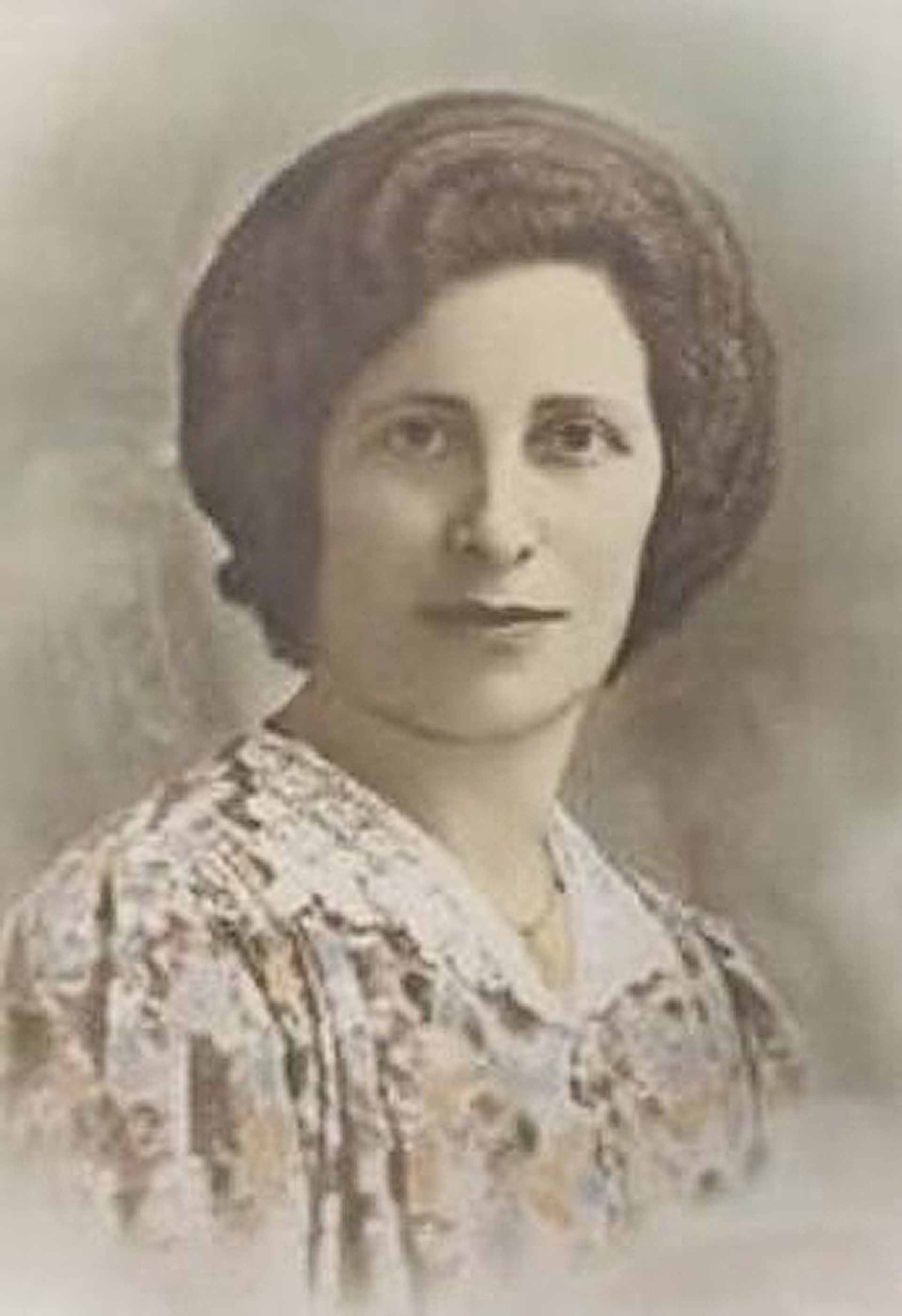 Emma Morano, 30 years old